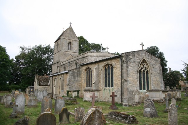 Church of England parish church of All Saints, Tinwell, Rutland: view from the southeast